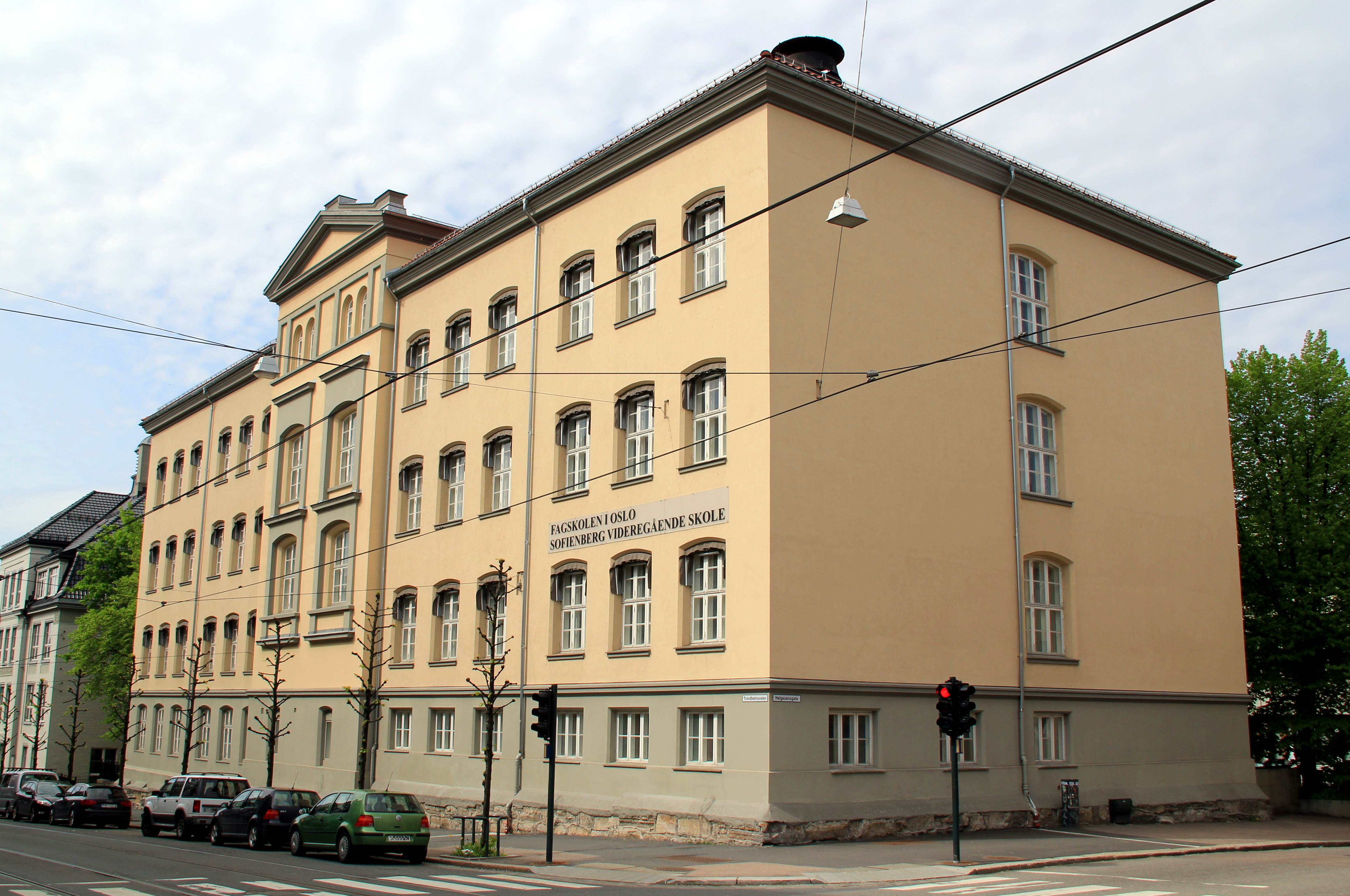 Sofienberg upper secondary school